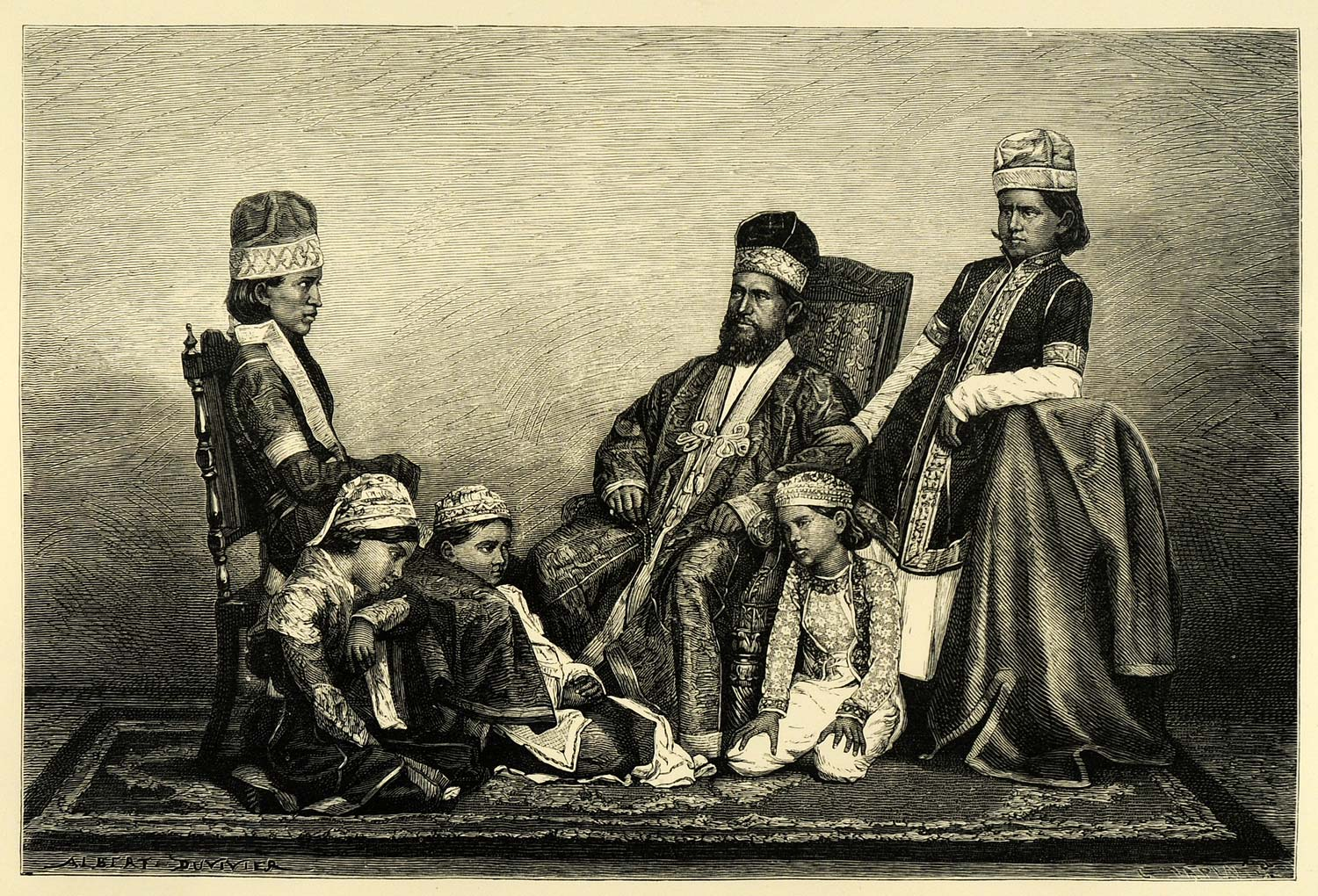 "Mirzas of the Imperial Family," a wood engraving, Bickers & Son, London, 1878 Source: ebay, July 2005